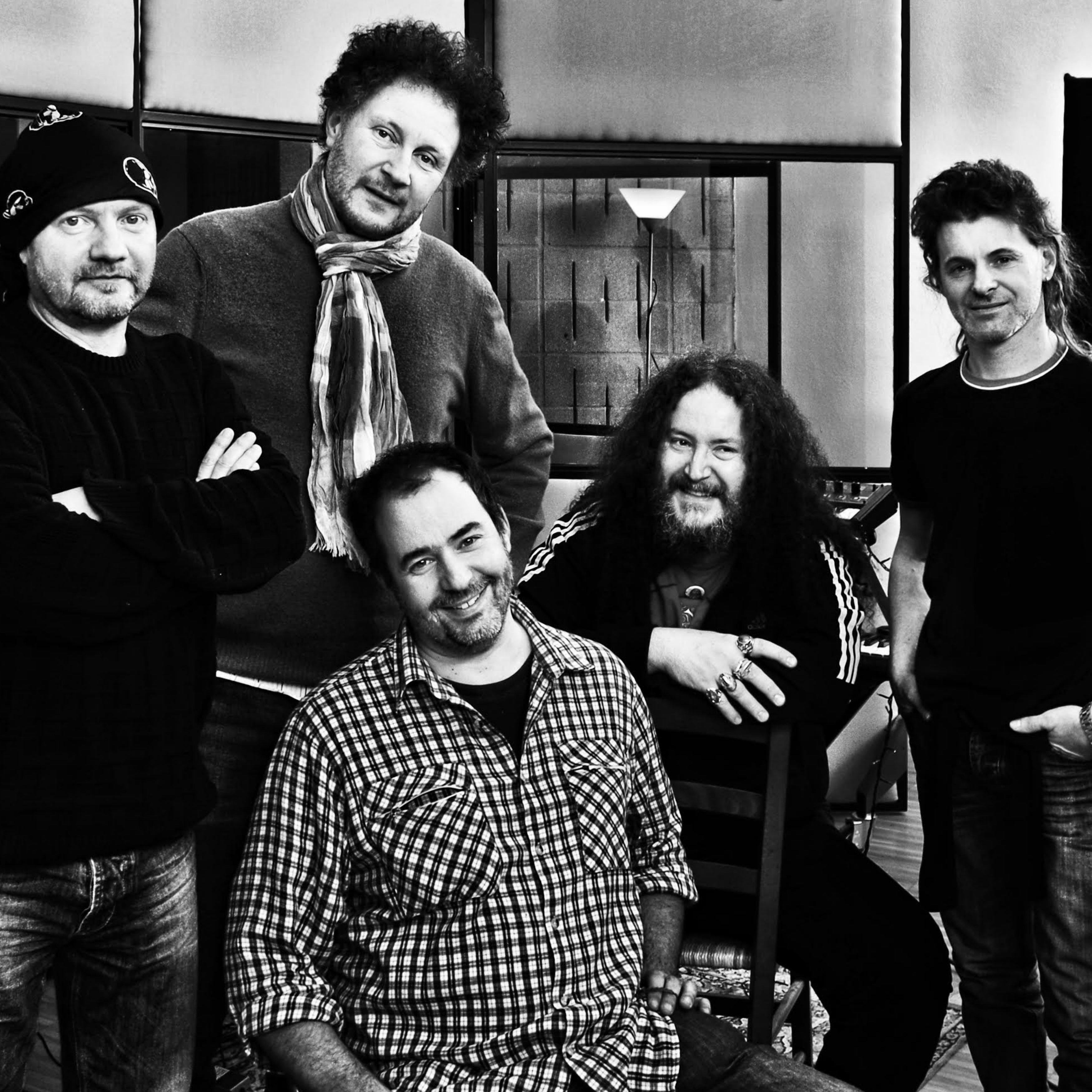 the band at Magister Studio Area, Preganziol